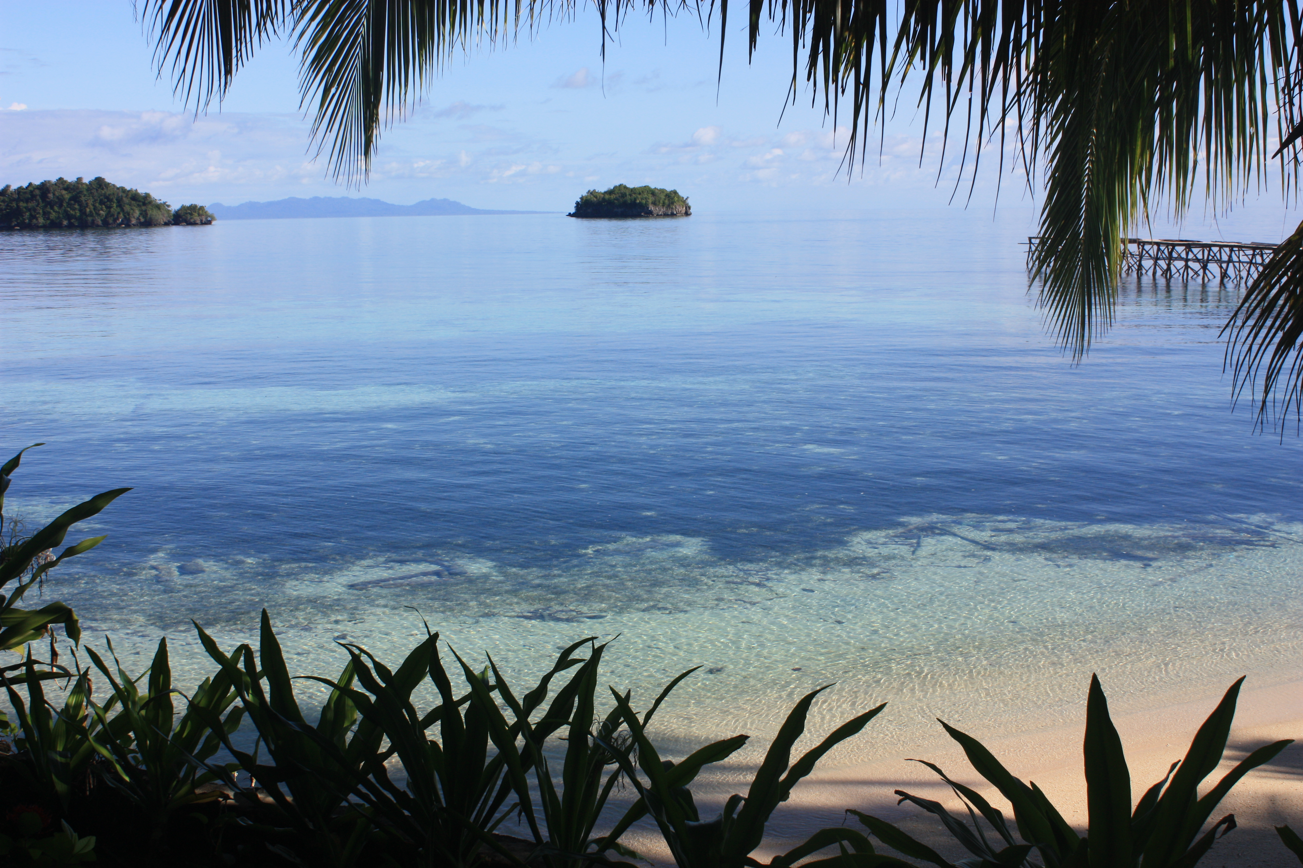 Kadidiri Island, Togean Islands National Park, Central Sulawesi, Indonesia. Morning view from my cottage